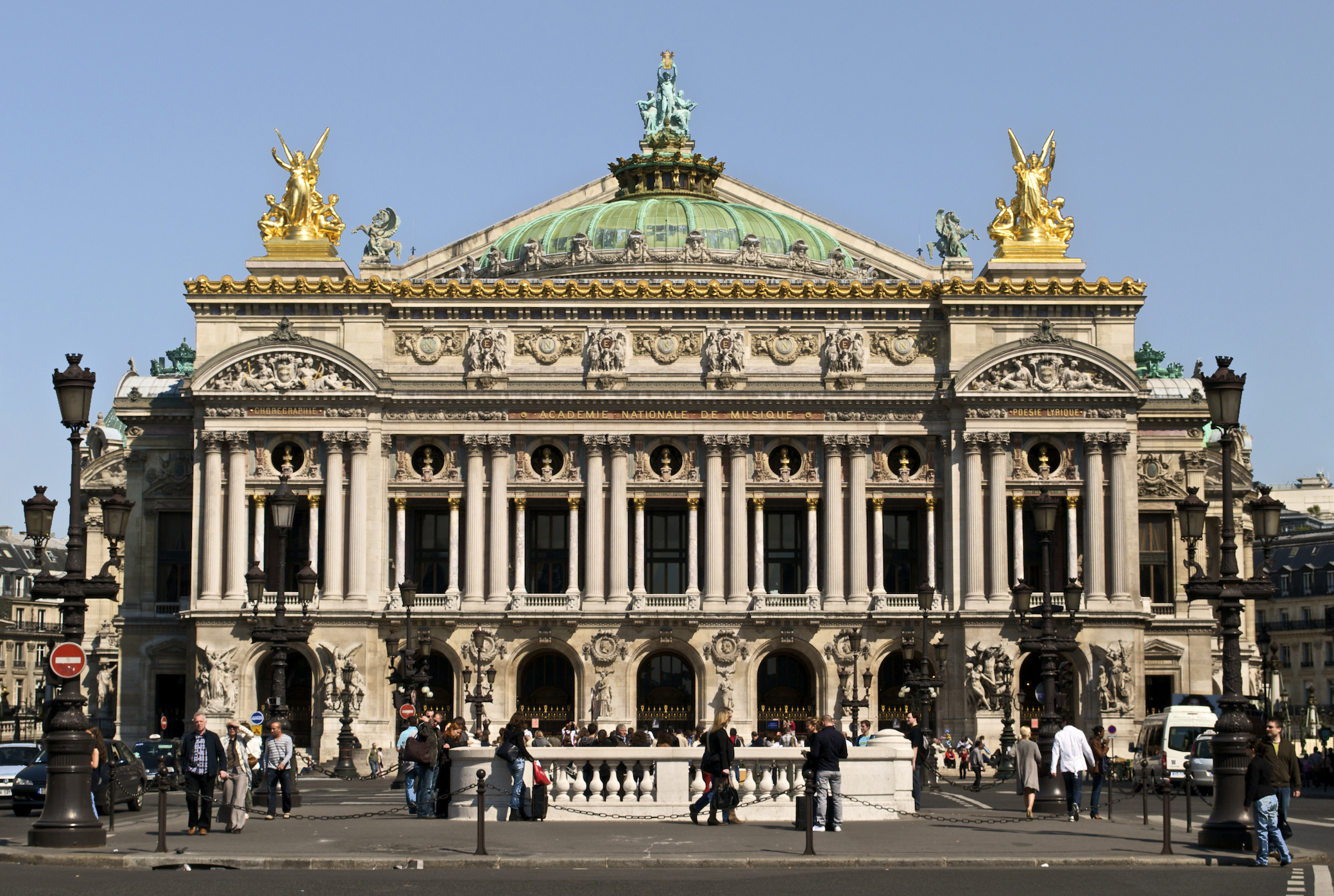 Paris Opera full frontal architecture, May 2009